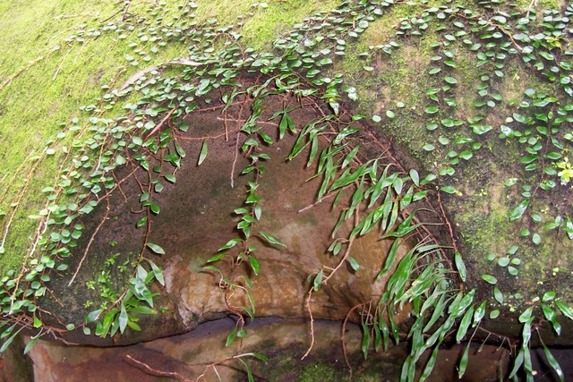 Hawkesbury Sandstone & Pyrrosia rupestris, Chatswood West